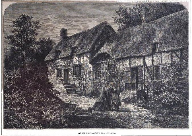 illustration of Anne Hathaway's cottage, published in a US edition of Boaden's Inquiry c1850-60